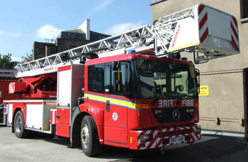 A new turntable ladder, which will become operation in London in 2008, with "FIRE" in mirror writing ("ERIF").